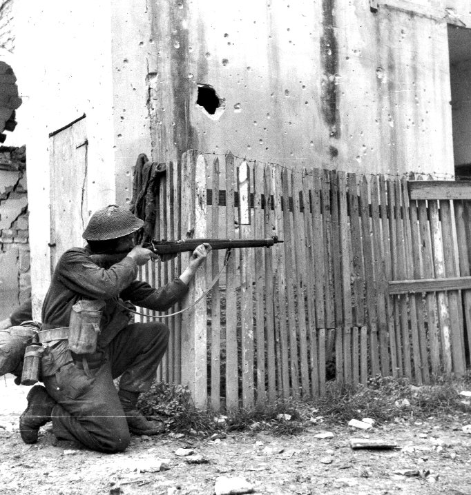 Loyal Edmonton Regiment Lance Corporal E.A. Harris fires at a German position in Ortona